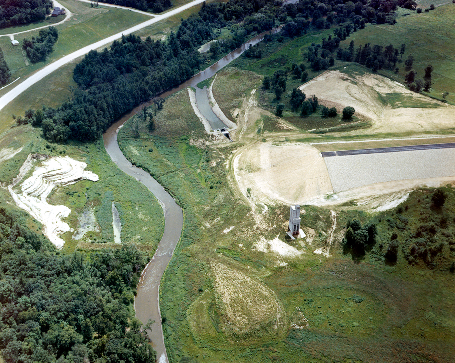 Aerial view of the never-completed lake and dam to prevent flooding on the Kickapoo River at La Farge, Wisconsin, USA. Construction on the dam was halted in 1975 after heavy opposition from environmental activists. The partially completed spillway and intake tower can be seen at center.